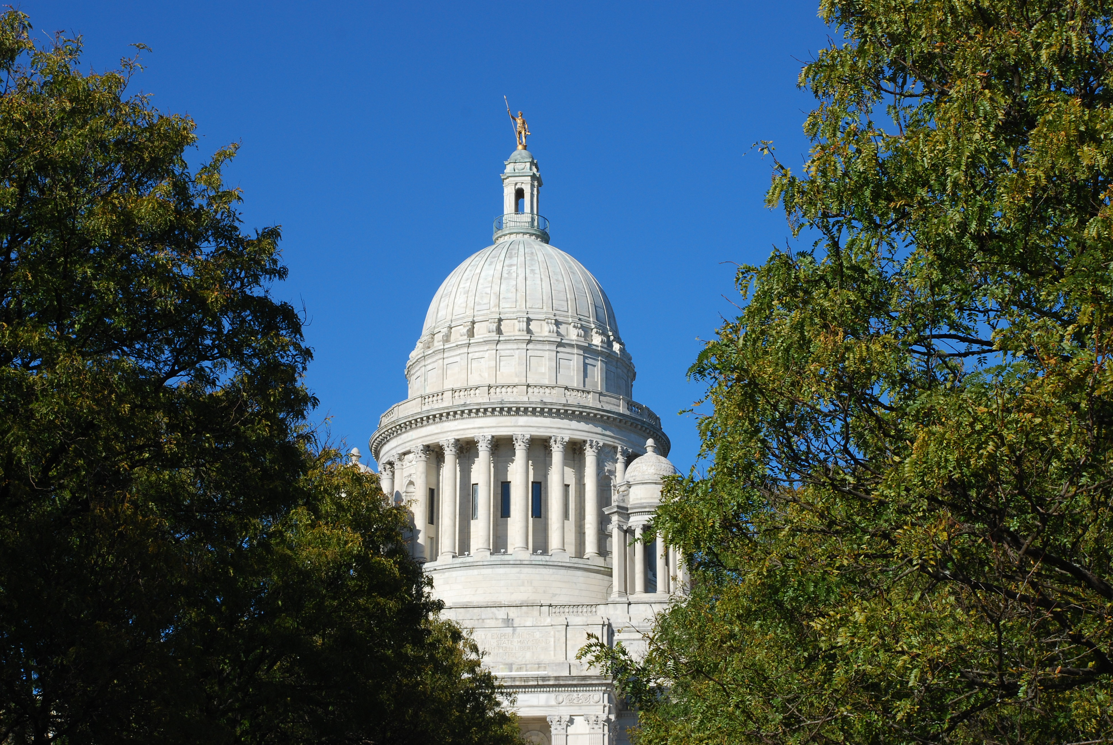 The upper part of Rhode Island State House, Providence, Rhode Island, USA